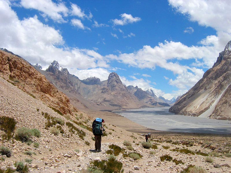 Shaksgam Valley, Xinjiang Uyghur Autonomous Region, in southwestern China.